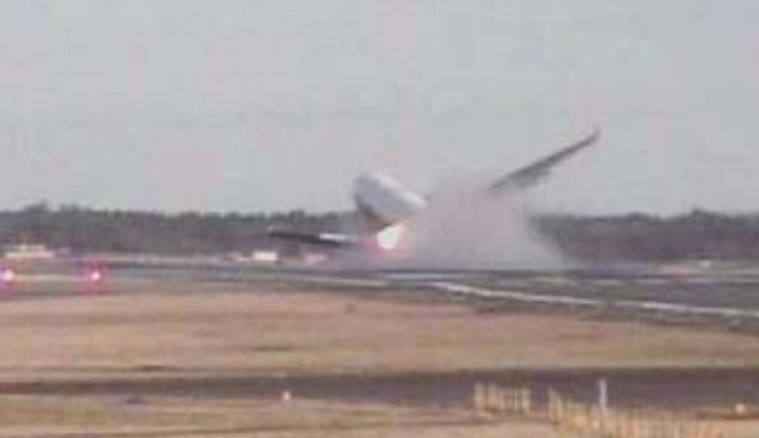 Fedex Flight 80 crash scene